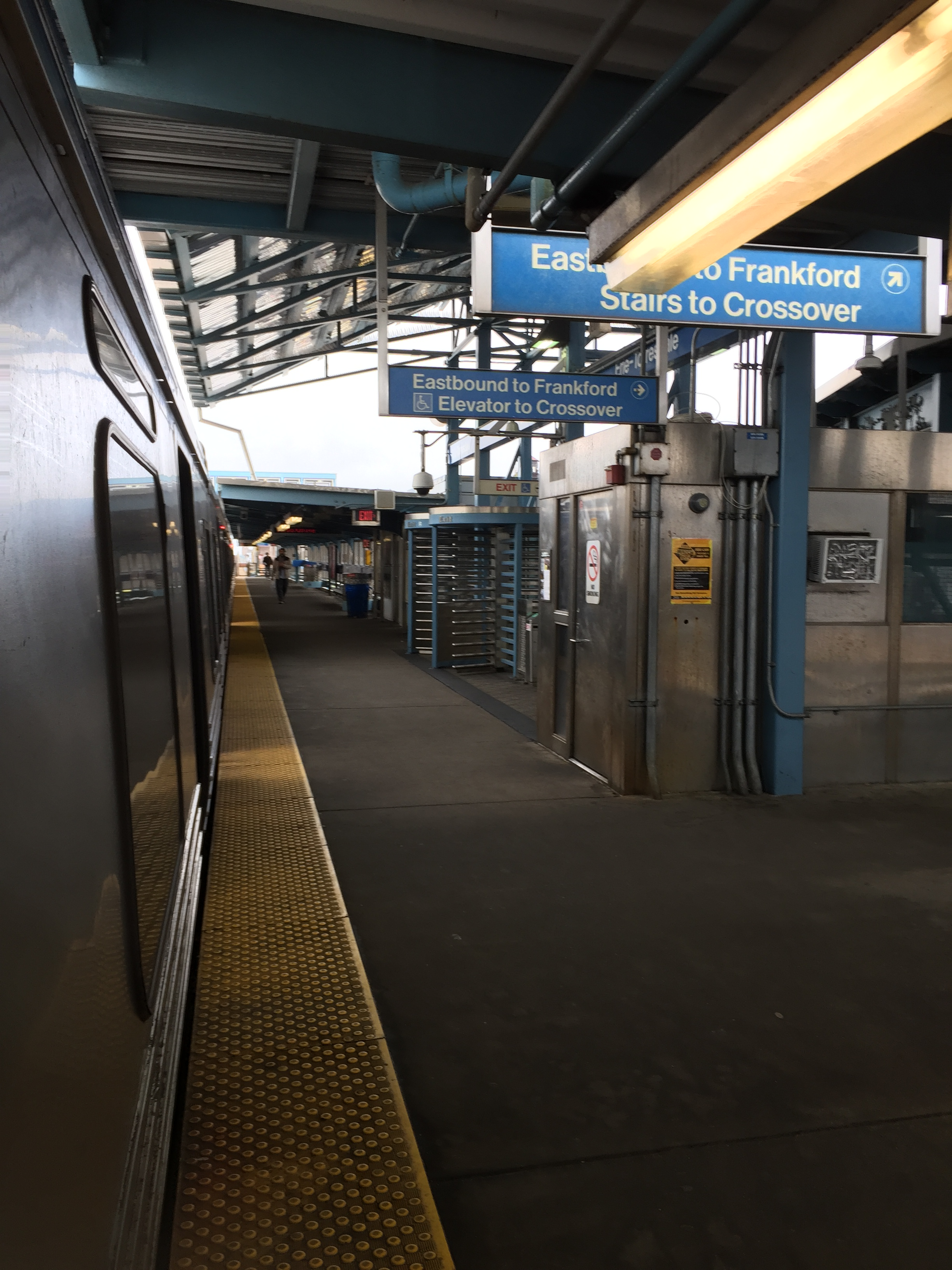 Erie-Torresdale Station